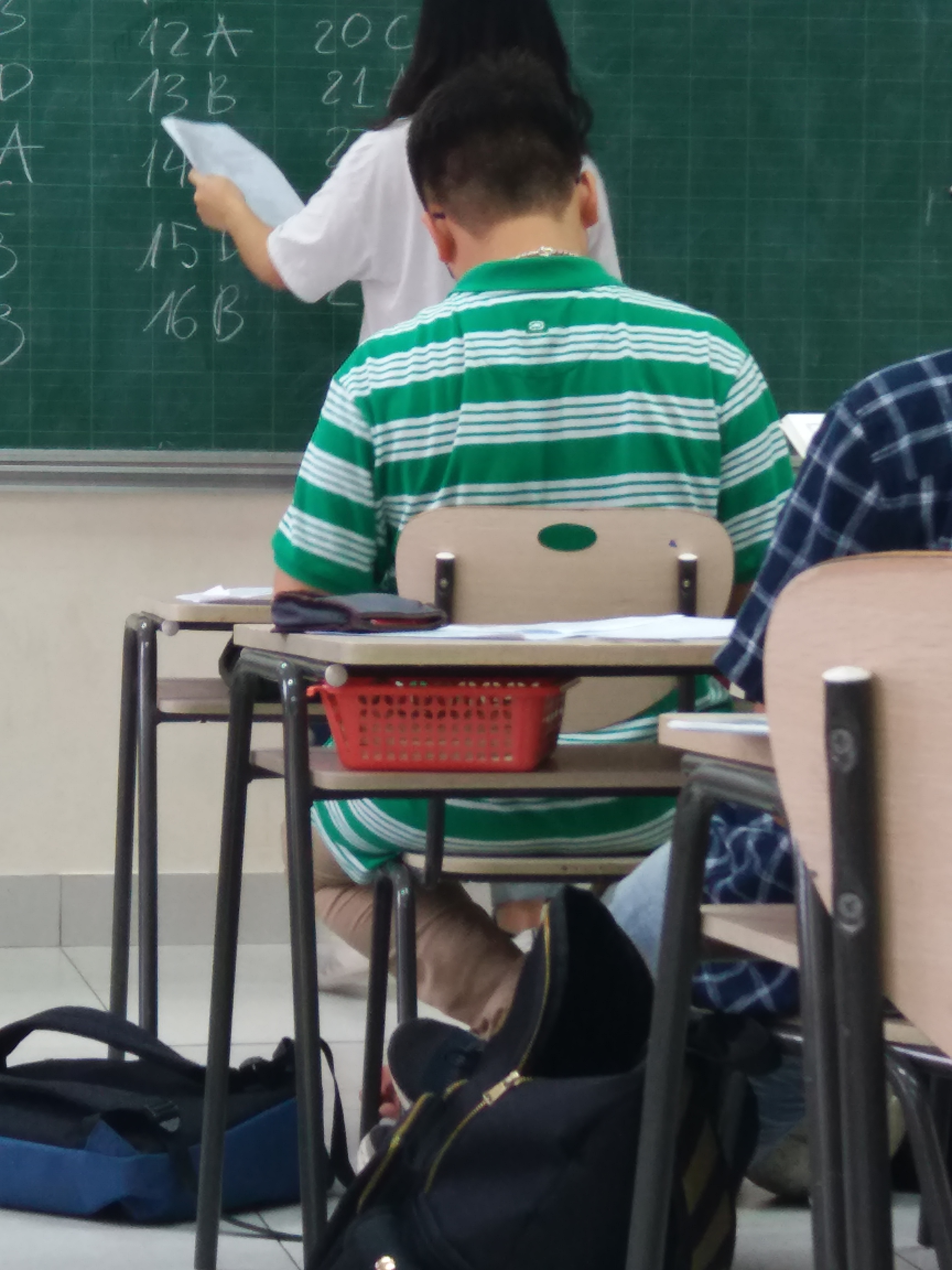 Gỳyfvgv